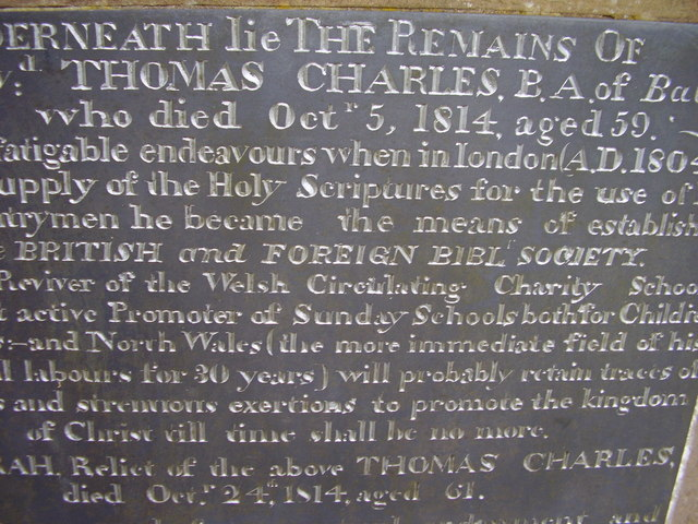 Thomas Charles' headstone in Llanycil Churchyard The Revd Thomas Charles was Vicar of Bala, and St.Beuno's Church Llanycil is the old Parish Church. He was the founder of the British and Foreign Bible Society, inspired by Mary Jones who walked 23 miles to Bala to obtain a Welsh Bible from him. The Church is redundant as a parish church, but is being turned into a Thomas Charles Memorial Exhibition by the Bible Society.